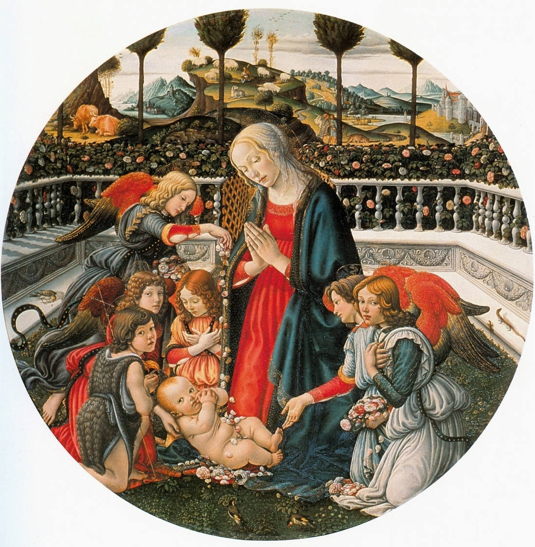 Francesco Botticini Madonna in adorazione del Bambino con san Giovannino e angeli. 123cm, ca. 1485 Palazzo Pitti, Florence